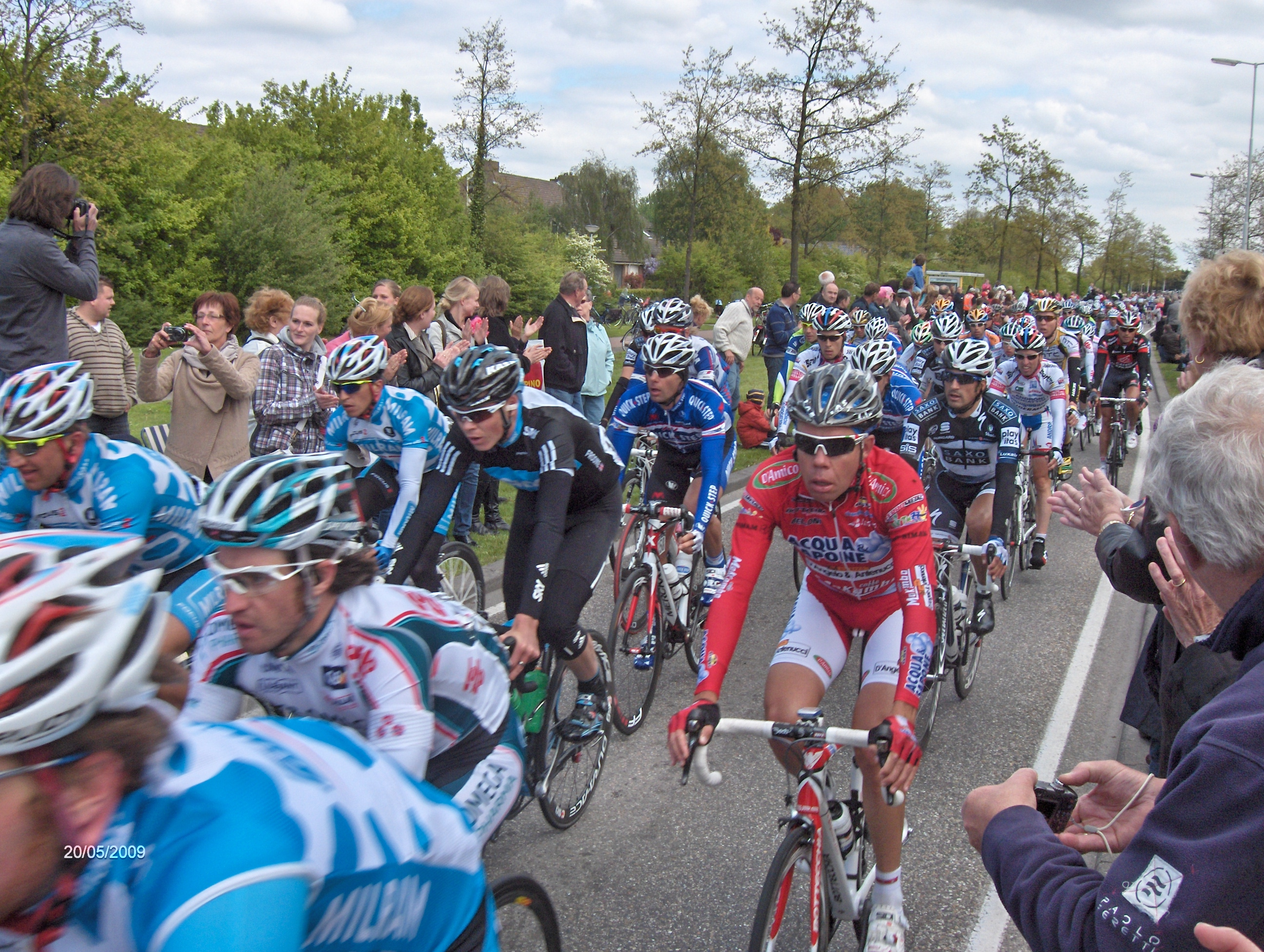 Giro d'Italia in the Dutch city of Hellevoetsluis